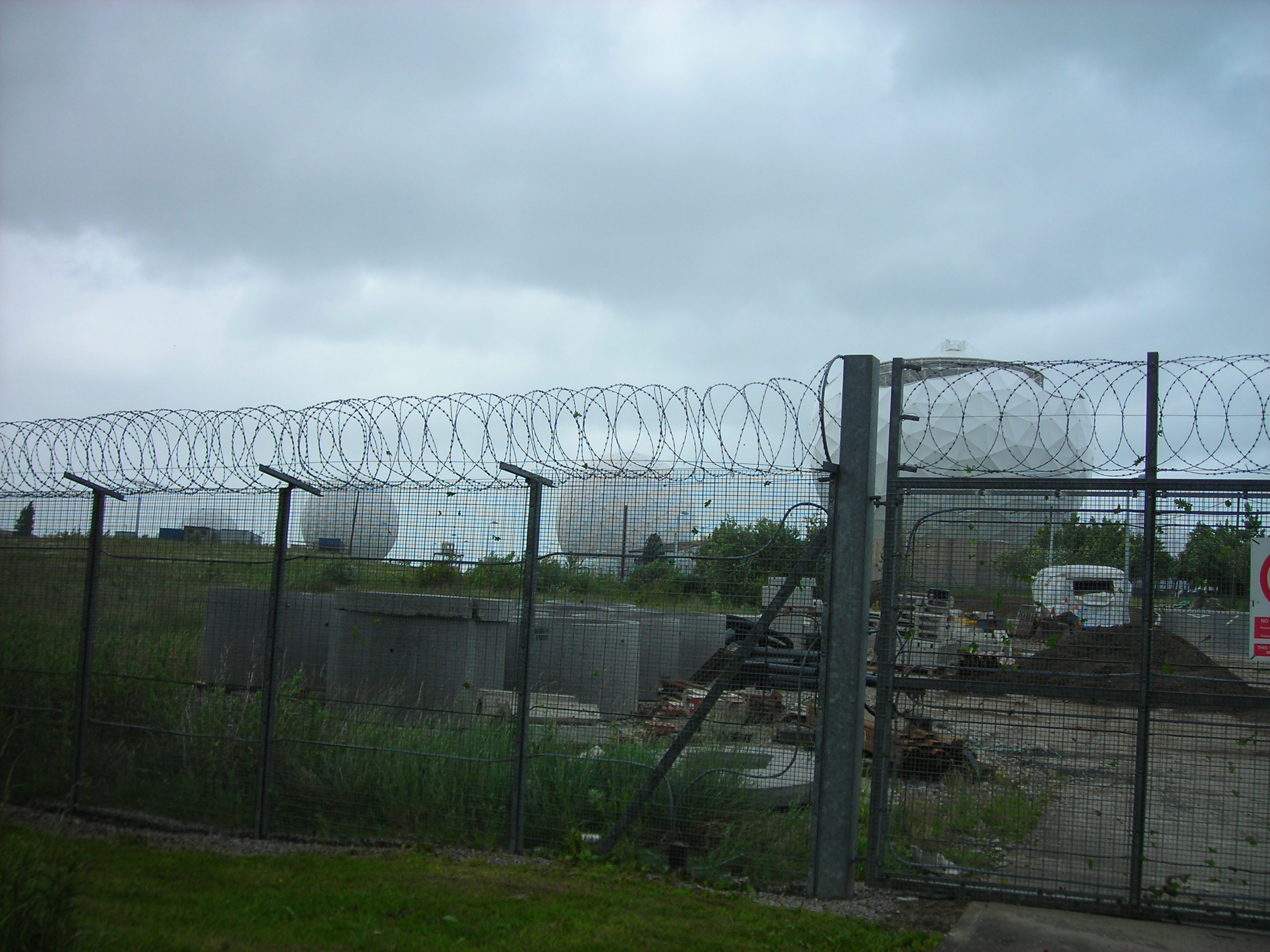 Spy satellites hidden in "golf balls" for the US military at RAF Menwith.